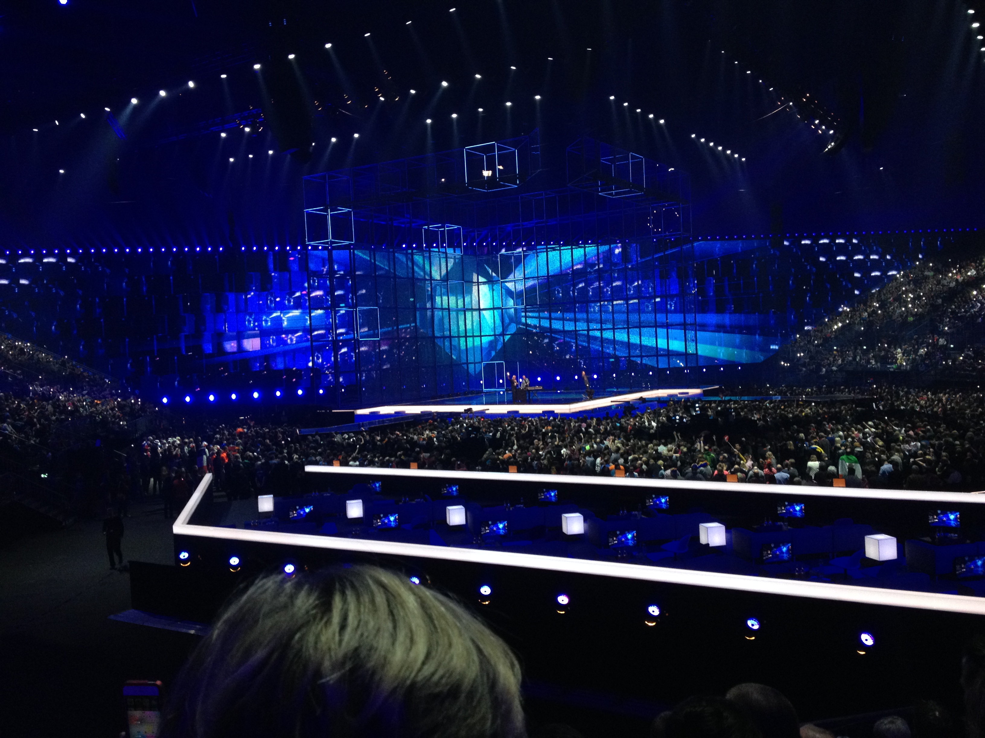 During the jury final.